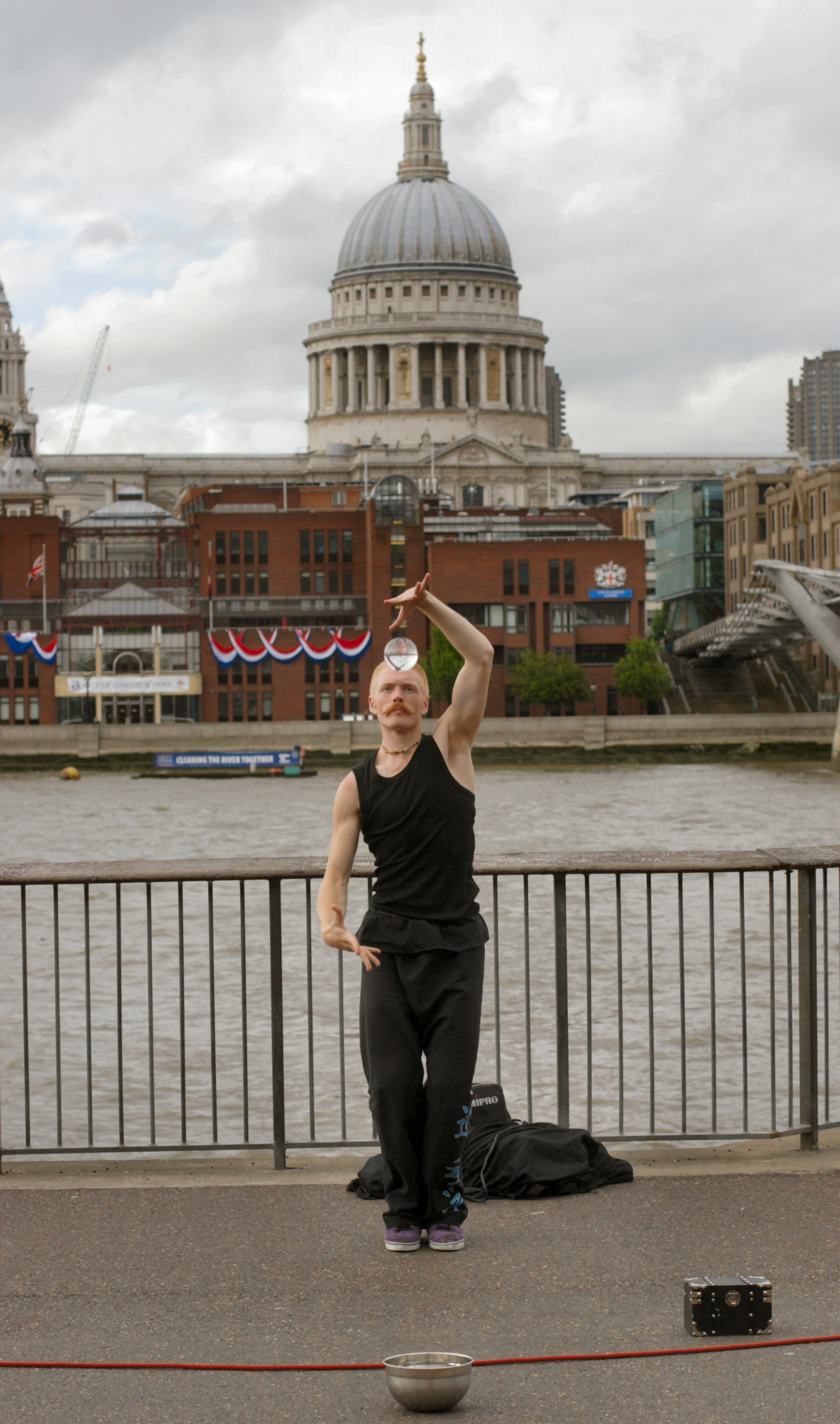 street dancer in action (part of a serie of five picture)